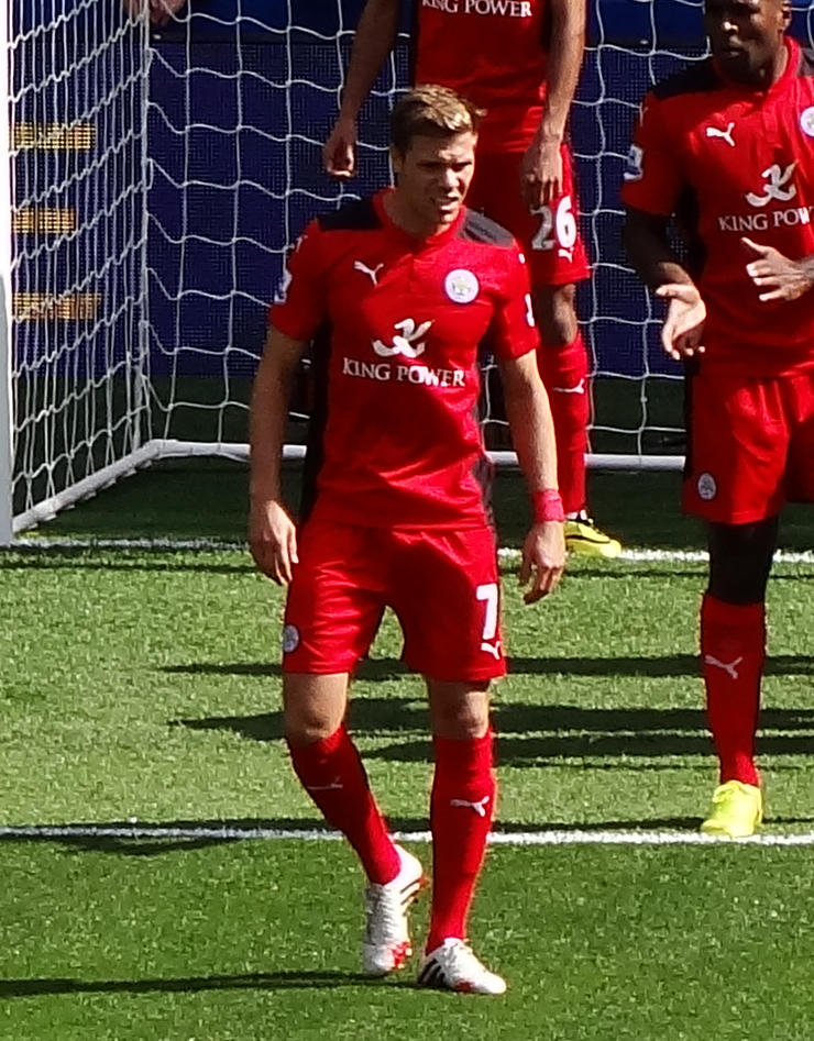 Dean Hammond playing for Leicester City against Chelsea in the English Premier League.